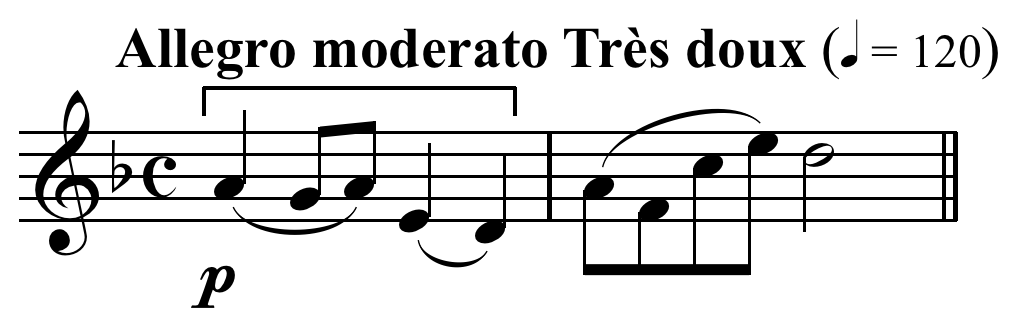 Motif from Ravel's (1875–1937) String Quartet, first movement, 1903. First performance 1904.